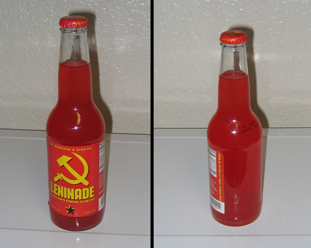 A bottle of Leninade, front and back. November 2007. Both the individual shots and the composite are mine, and I release it to PD.